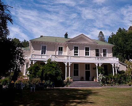 View from the croquet lawn.